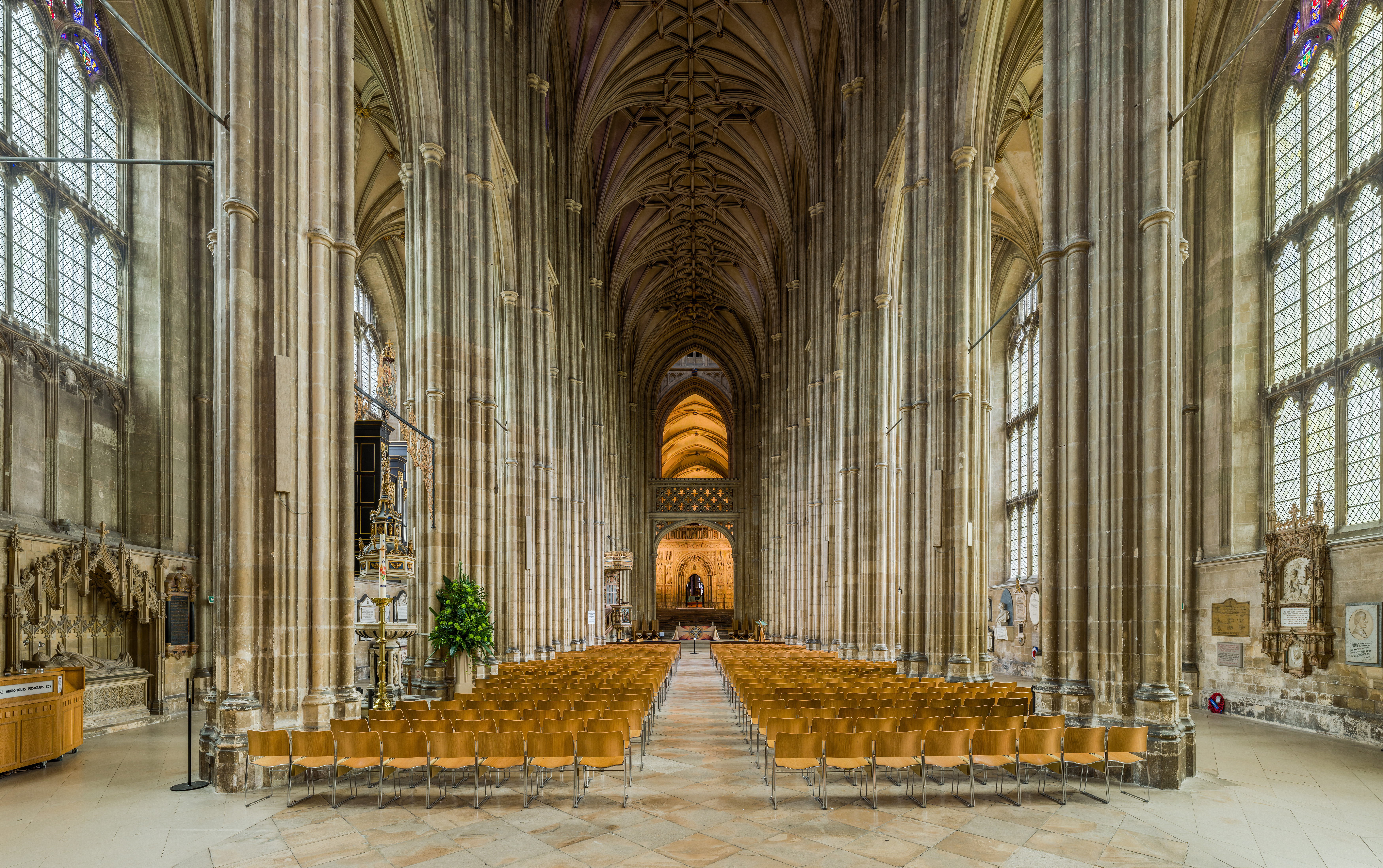 The nave of Canterbury Cathedral, looking towards the choir area from the western entrance.